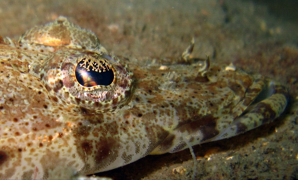 The close shot of head and eye lappet of Crocodilefish. This fish was found at the sandy bottom near Bi-Tou Habor park, a famous scuba diving site at northeast coast, Taiwan. The photo was taken by Vincent C. Chen